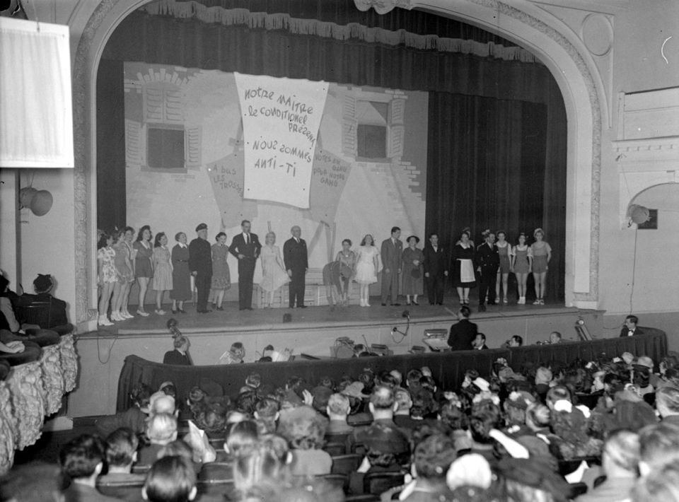 Gratien Gélinas and many comedians on stage during a performance of Fridolinons journals. We note the musicians in the orchestra pit of the National Monument.